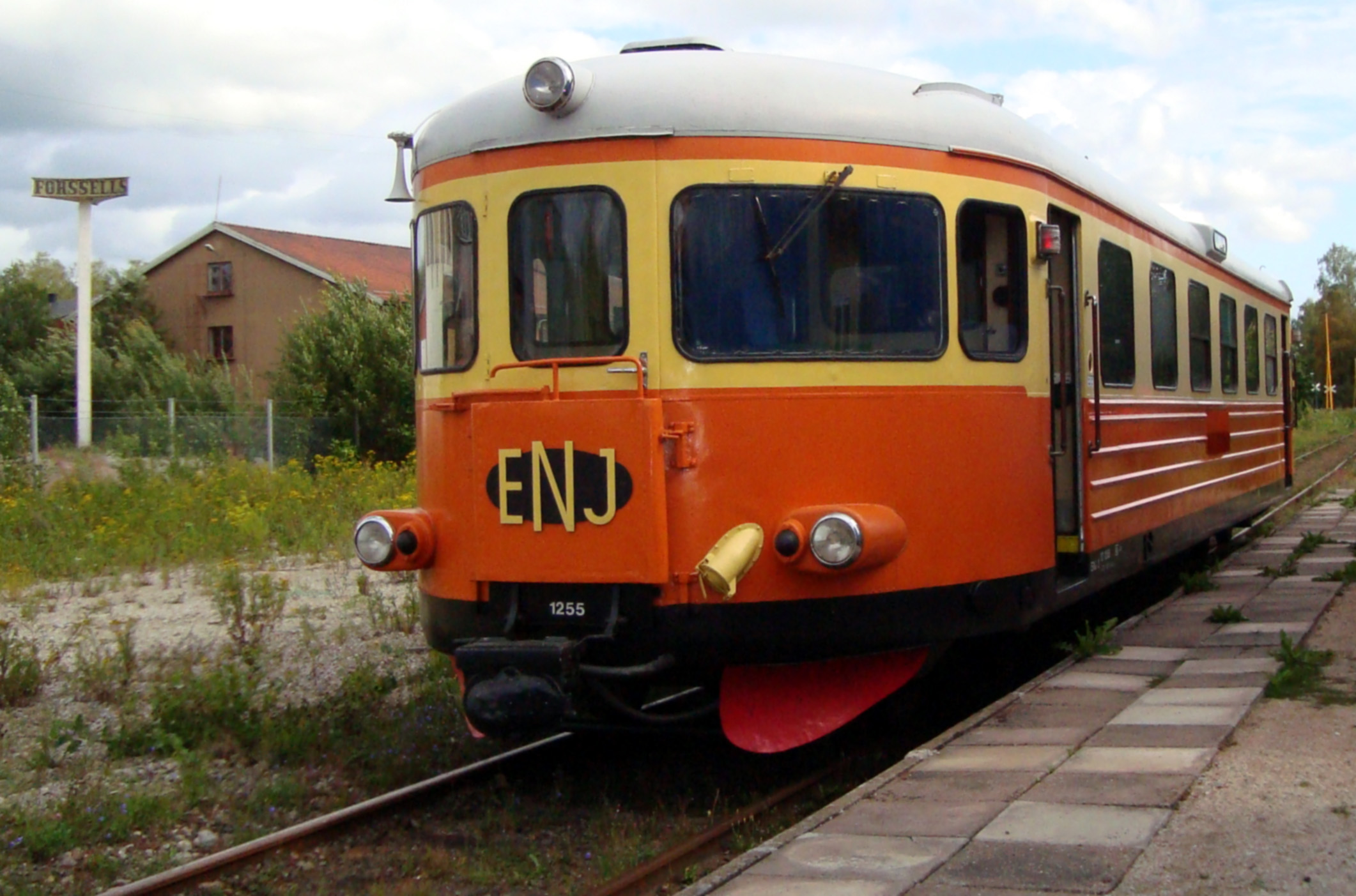 Motor coach of Engelsberg-Norbergs Järnväg (now museal railroad), at Norberg's train station, Sweden